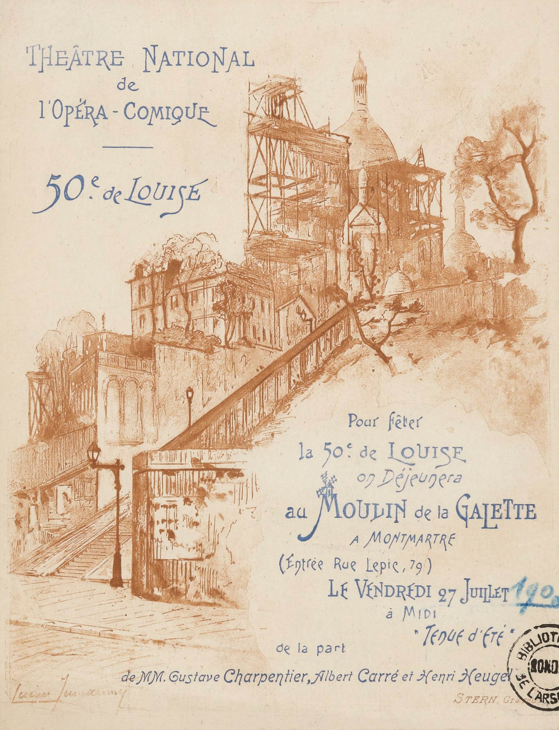 Gustave Charpentier - Louise - Poster for the 50th performance